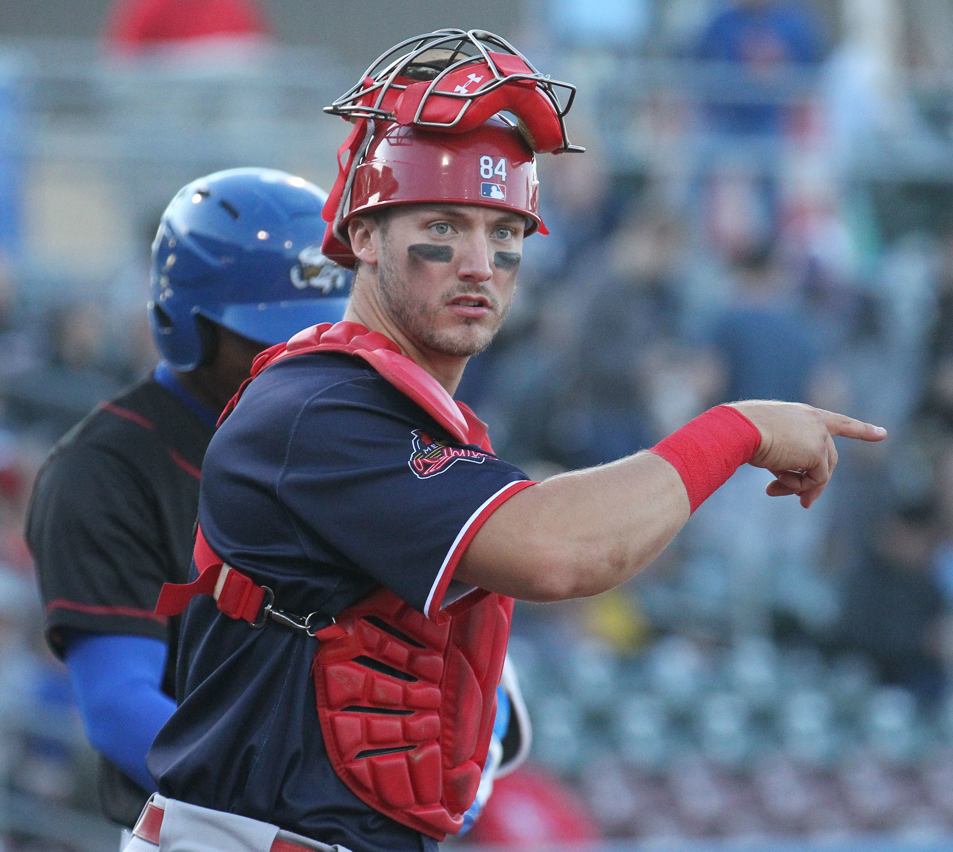 Andrew Knizner with the Memphis Redbirds during a 2019 game at Werner Park in Nebraska